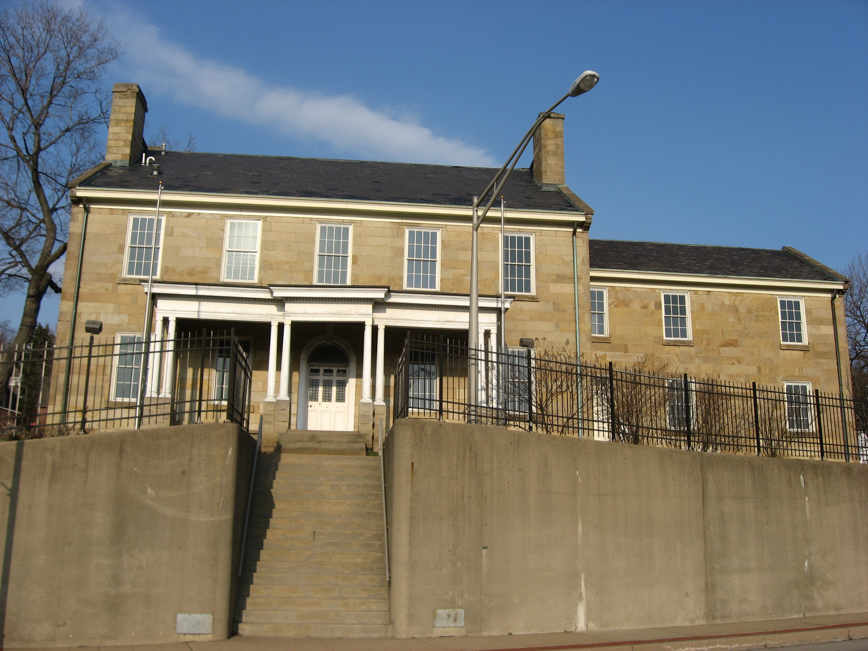 Streetside view of the Captain William Vicary House, a stone house located at the intersection of Third and Fourth Avenues with Harvey Run Road in Freedom, Beaver County, Pennsylvania, United States. Built in 1826, it was added to the National Register of Historic Places on 8 November 1974.